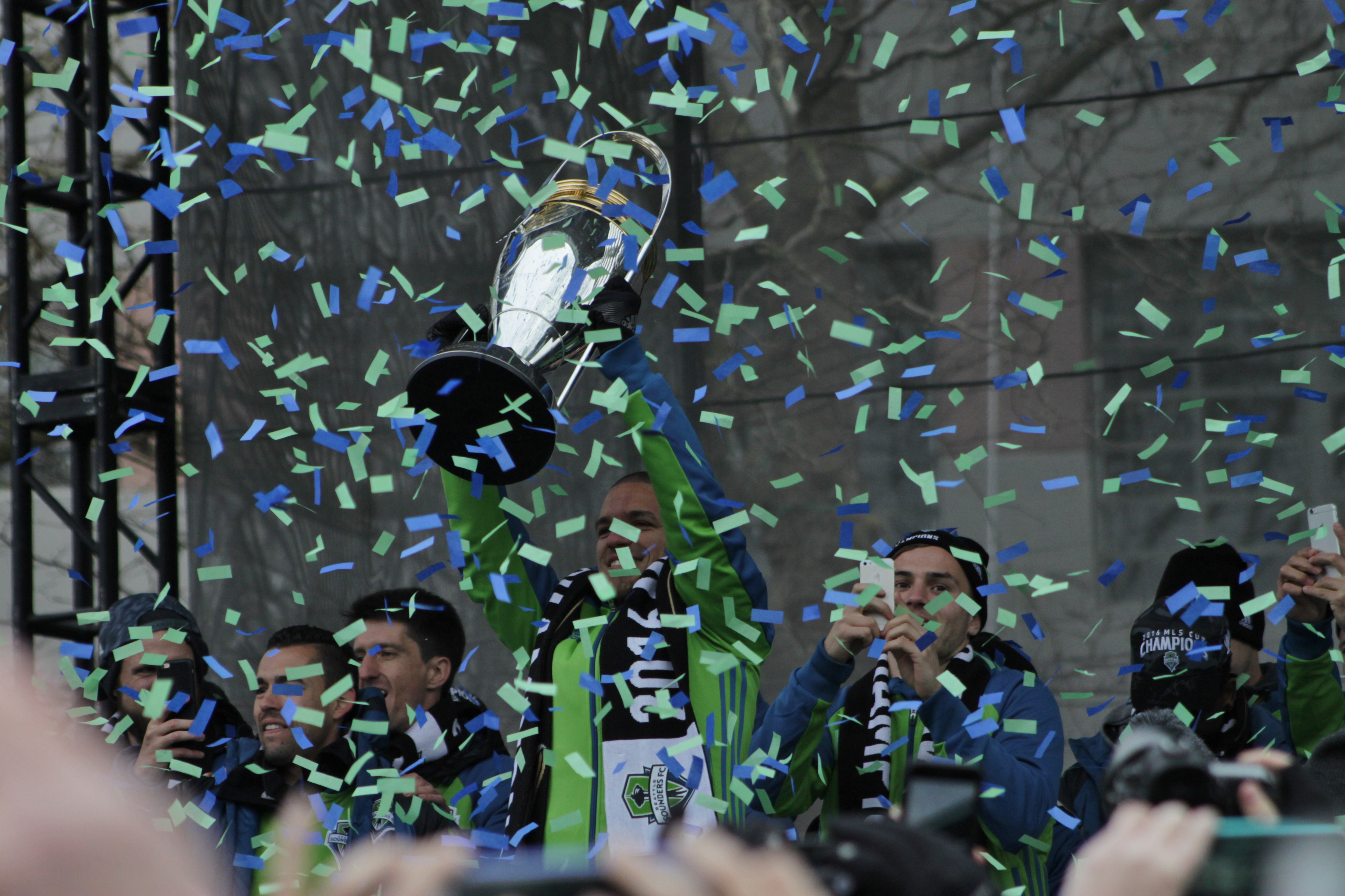 Osvaldo Alonso lifting the MLS Cup at Sounders Rally